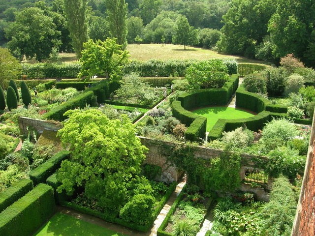 Sissinghurst Castle Gardens. Famous gardens created by Vita Sackville-West.